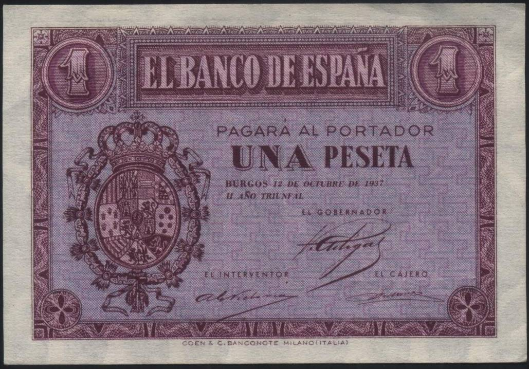 Bank note issued by the "Nationalist", "Rebel", or "Francoist" faction during the Spanish Civil War. 1 Peseta. Burgos (printed in Milan, Italy), 12 October 1937. Series F. Source: Edifil. Catálogo especializado de Billetes de España. Madrid, 2002, D26a.